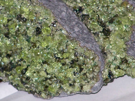 Peridot in basalt from the San Carlos Reservation, Arizona. Personal collection, image made by me.